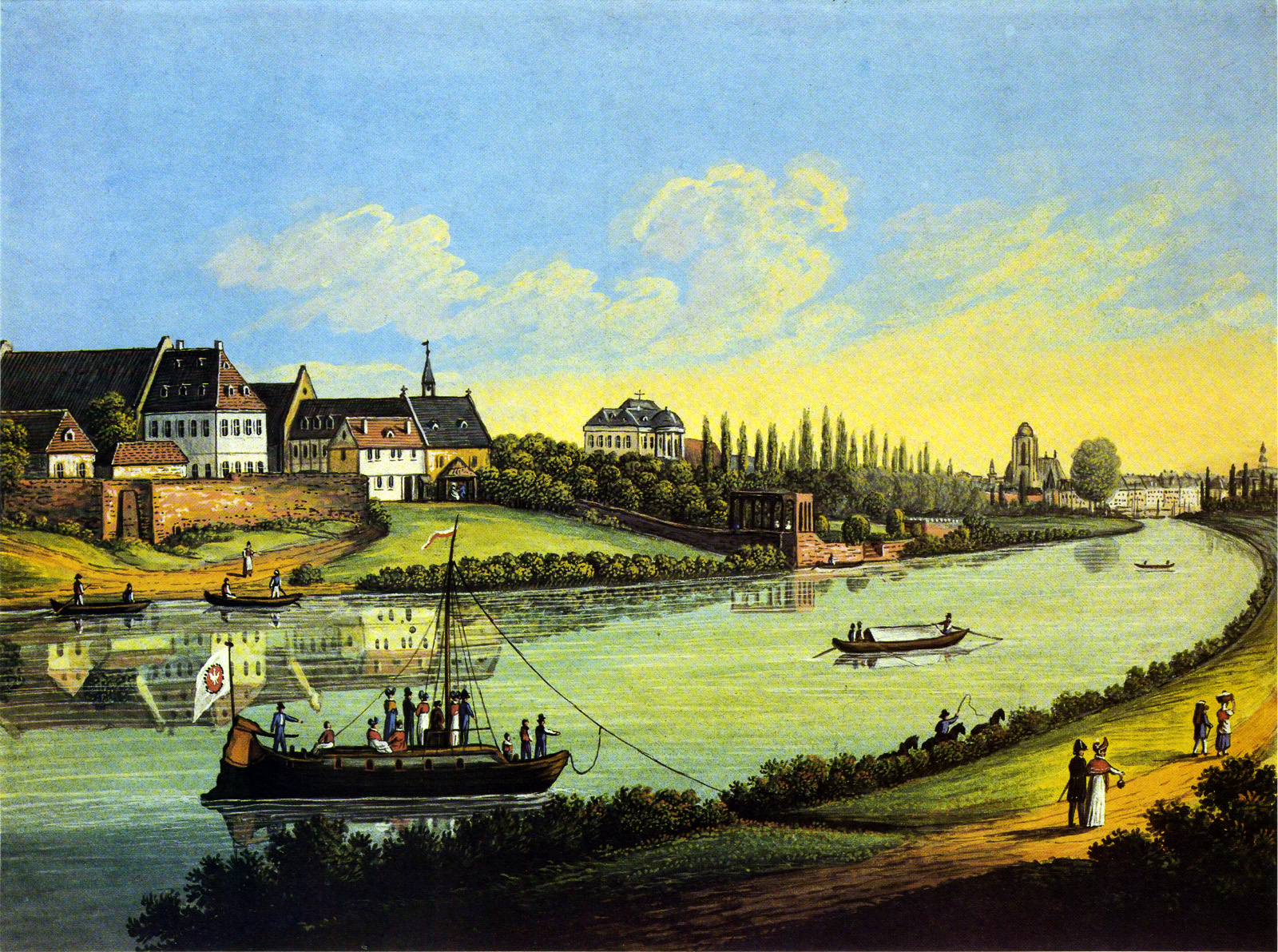 Frankfurt on the Main: Panorama of the Main with the Gutleuthof (Gutleut's yard), Gouache